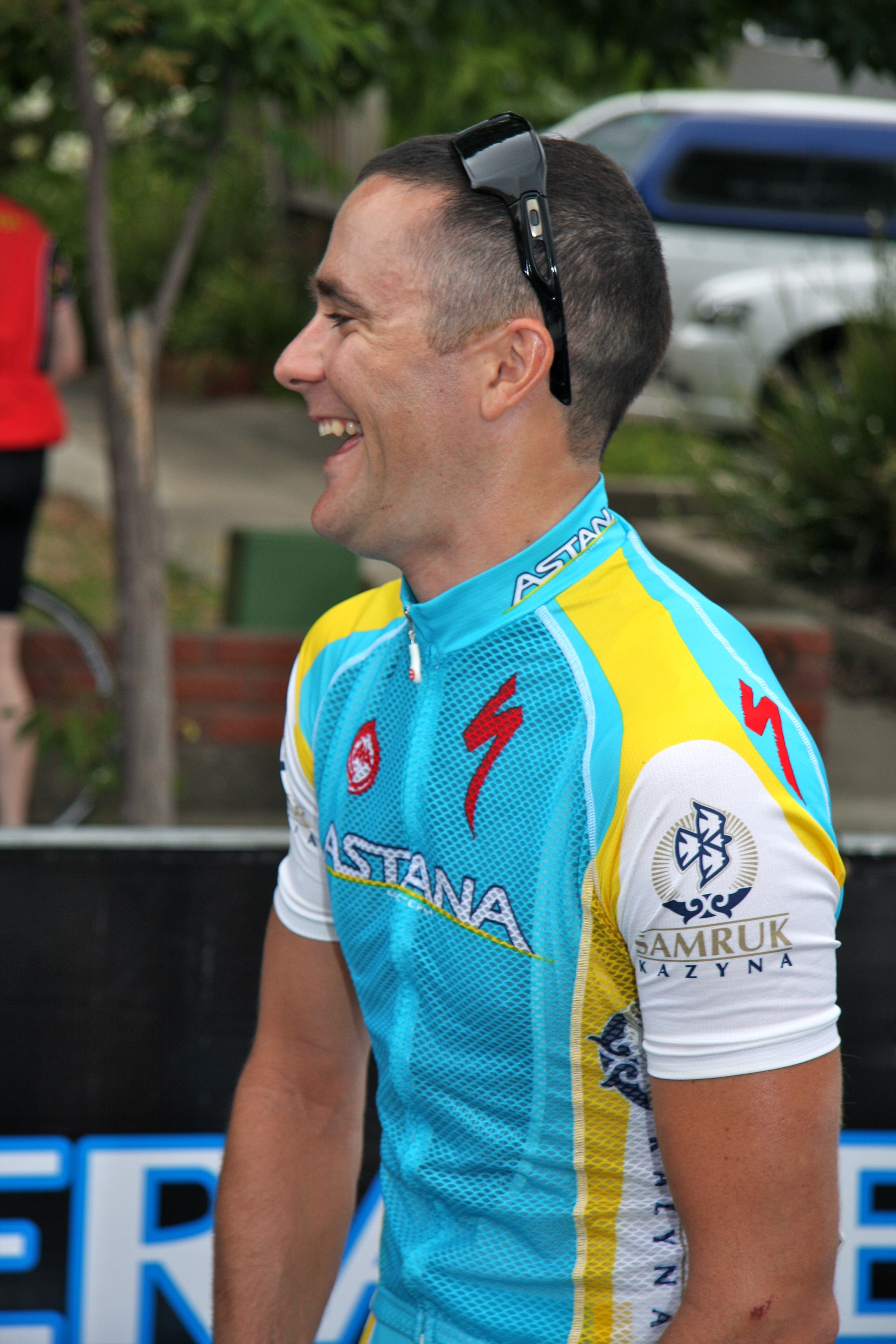 Slovenian professional cyclist Borut Božič (Astana) captured at 2012 Tour Down Under in Australia.